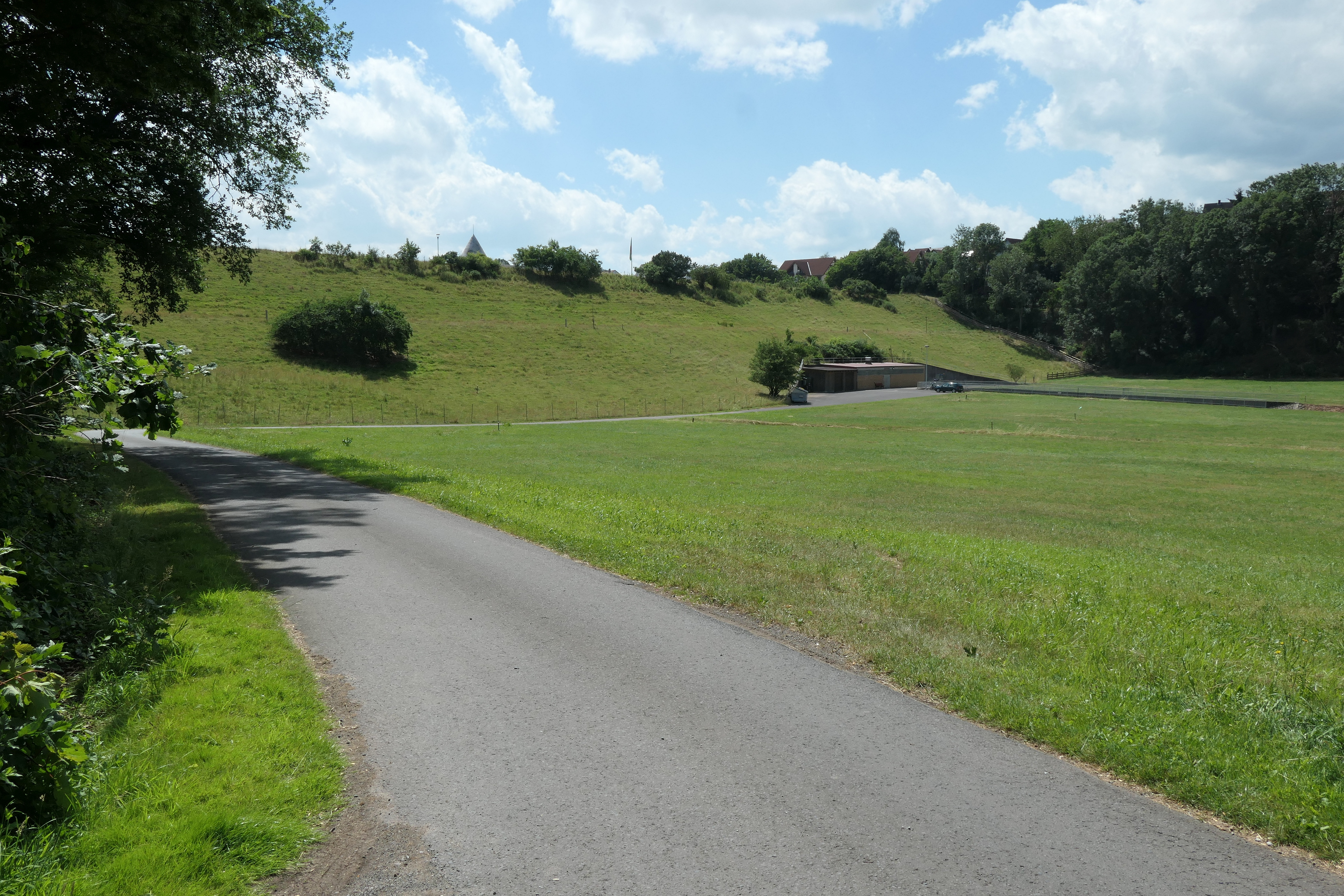 Twistesee (Twiste Lake) near Bad Arolsen, Germany, embankment dam